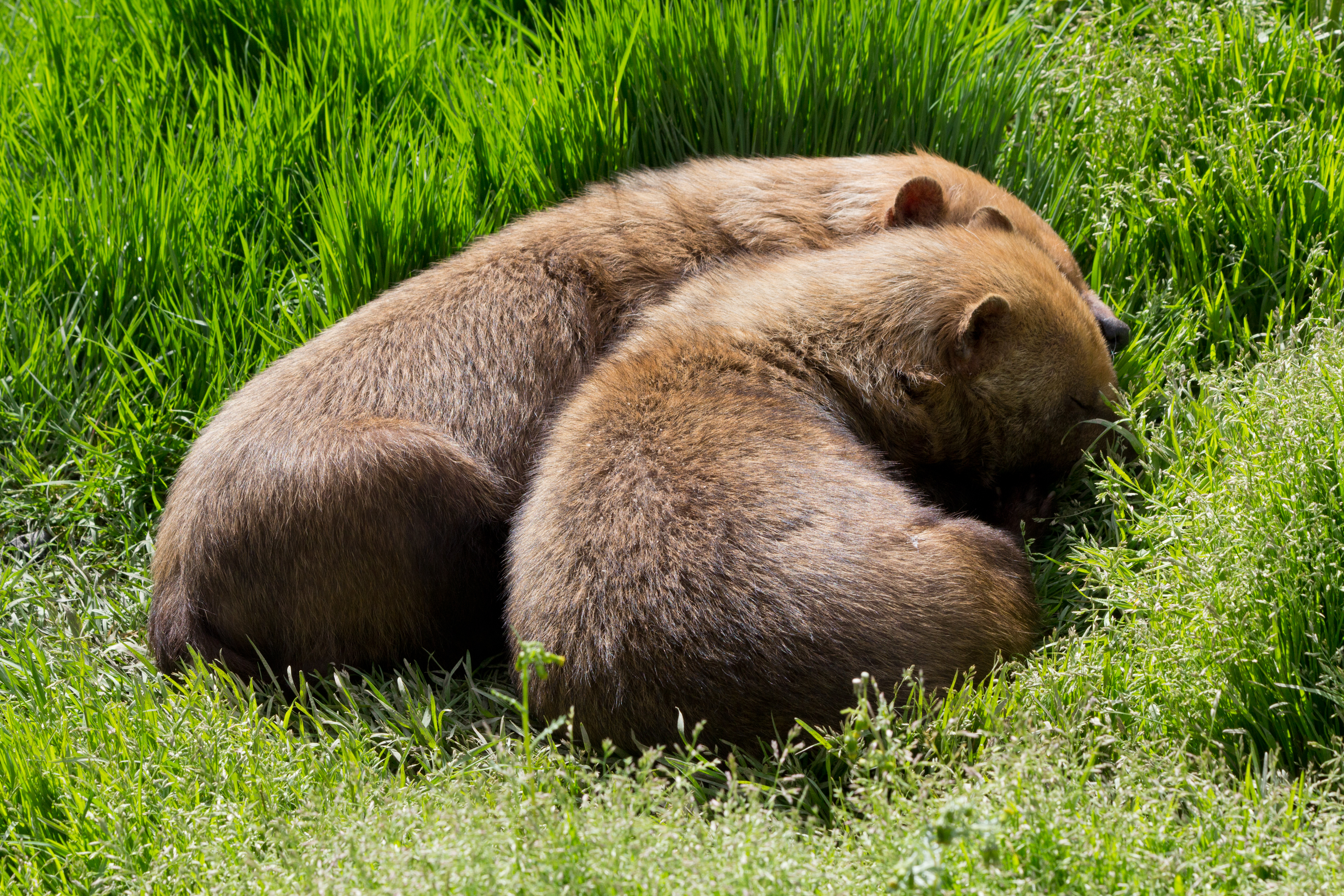 Two bush dogs (Speothos venaticus) resting at the Zoo of Madrid, Spain.